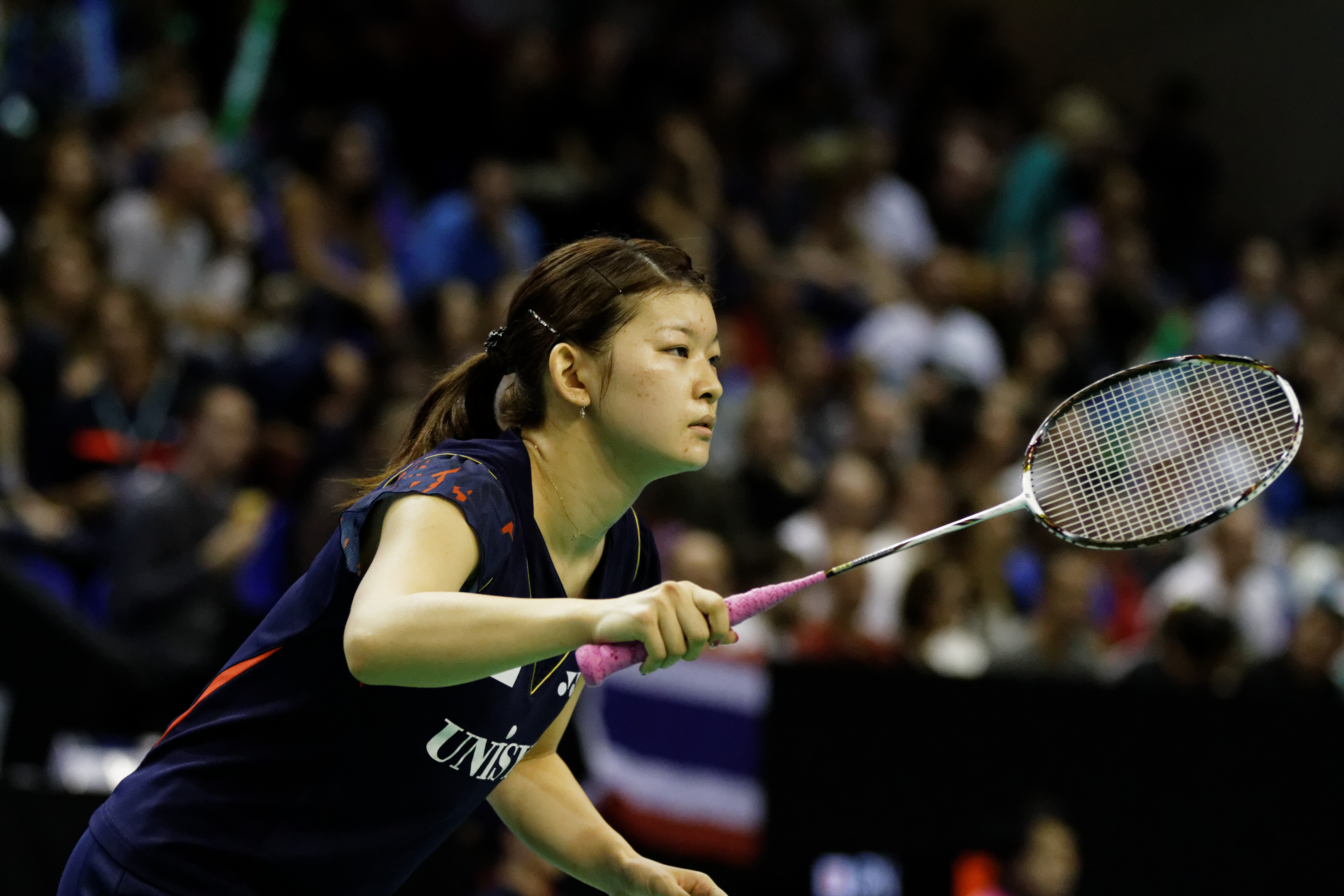 2013 French open. Women's doubles quarterfinal. Tian Qing and Zhao Yunlei vs Misaki Matsutomo and Ayaka Takahashi.